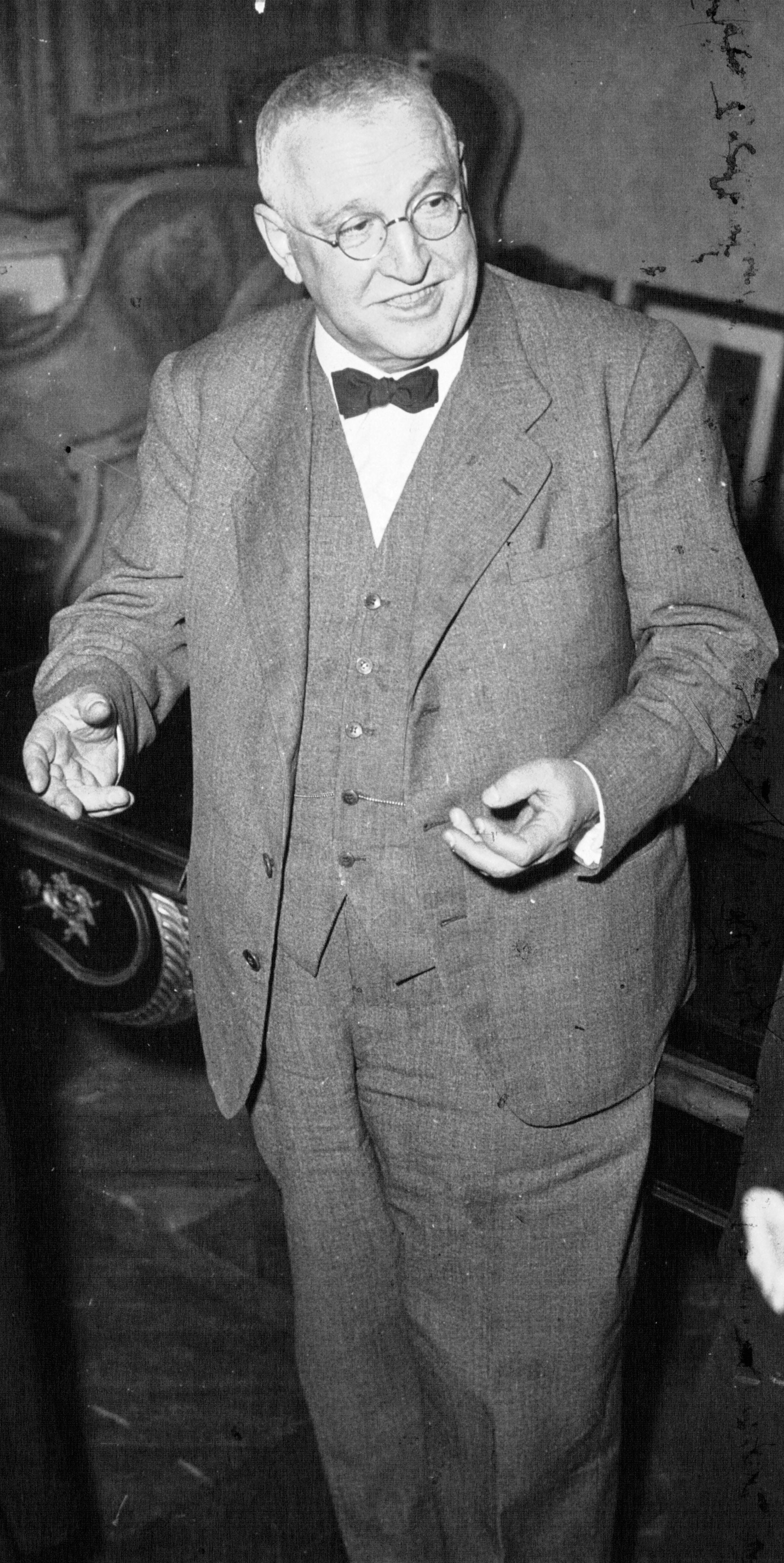 Photograph of Rafael Pikabea Legia